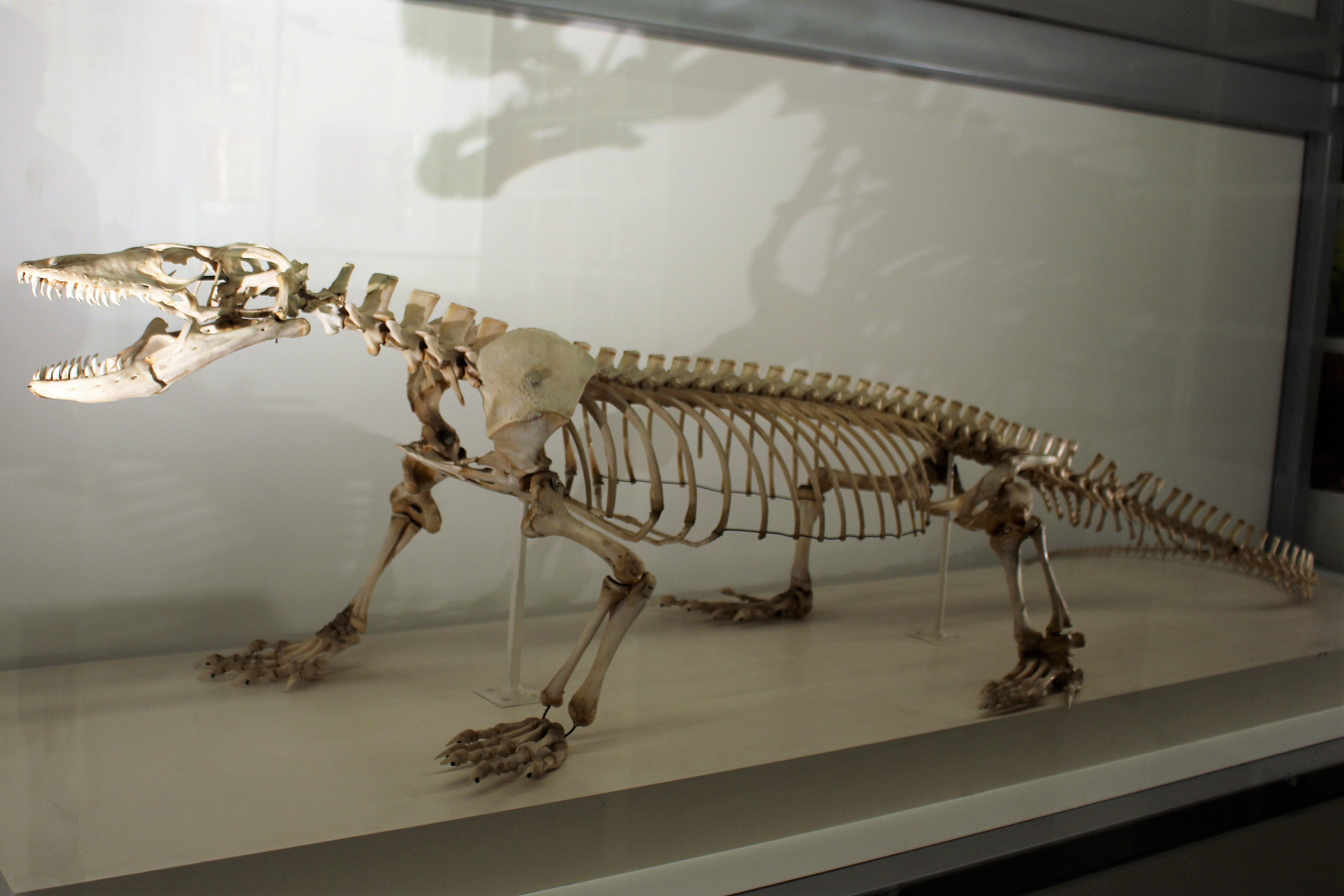 Komodo dragon (Varanus komodoensis) skeleton at the Cambridge University Museum of Zoology, England.